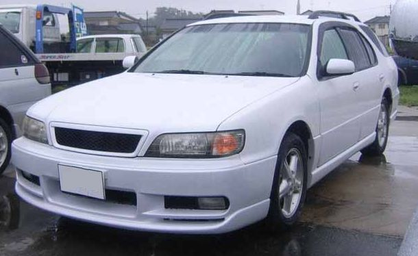 Nissan Cefiro Aero station wagon.